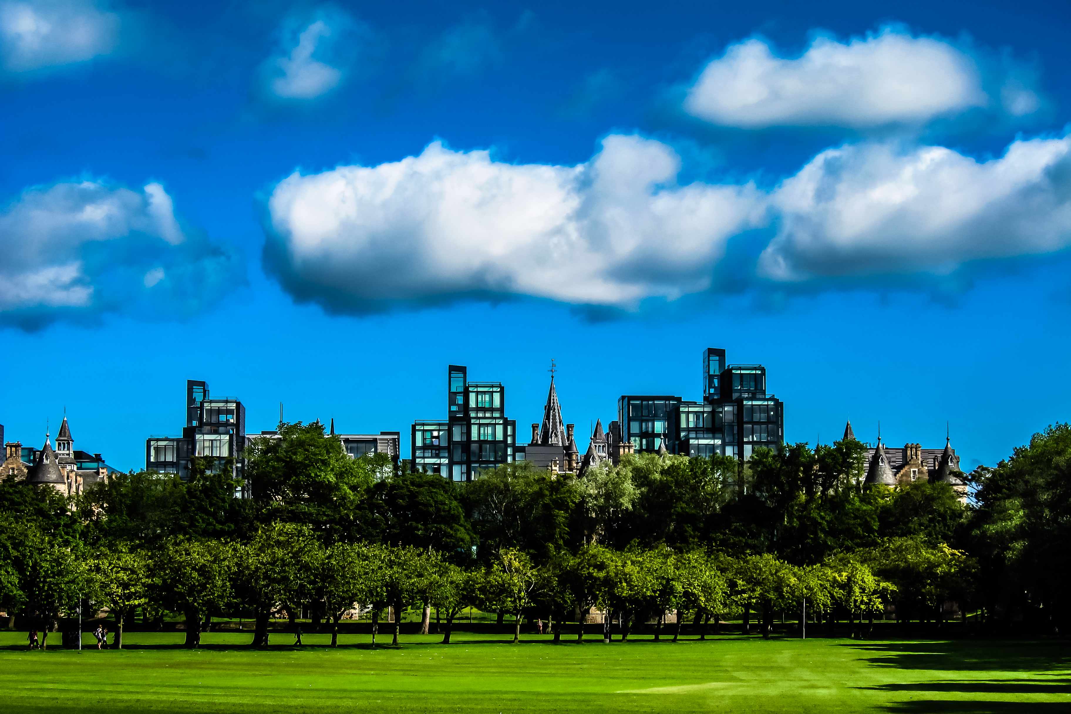 Quartermile as seen from the Meadows.